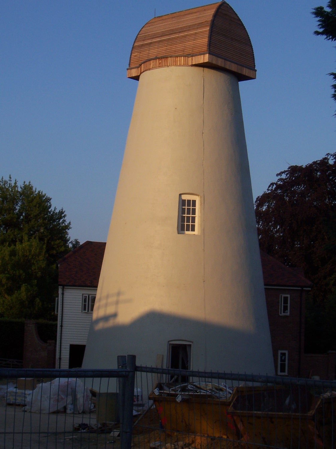 Bidborough Windmill A view of Bidborough Windmill in course of house conversion.